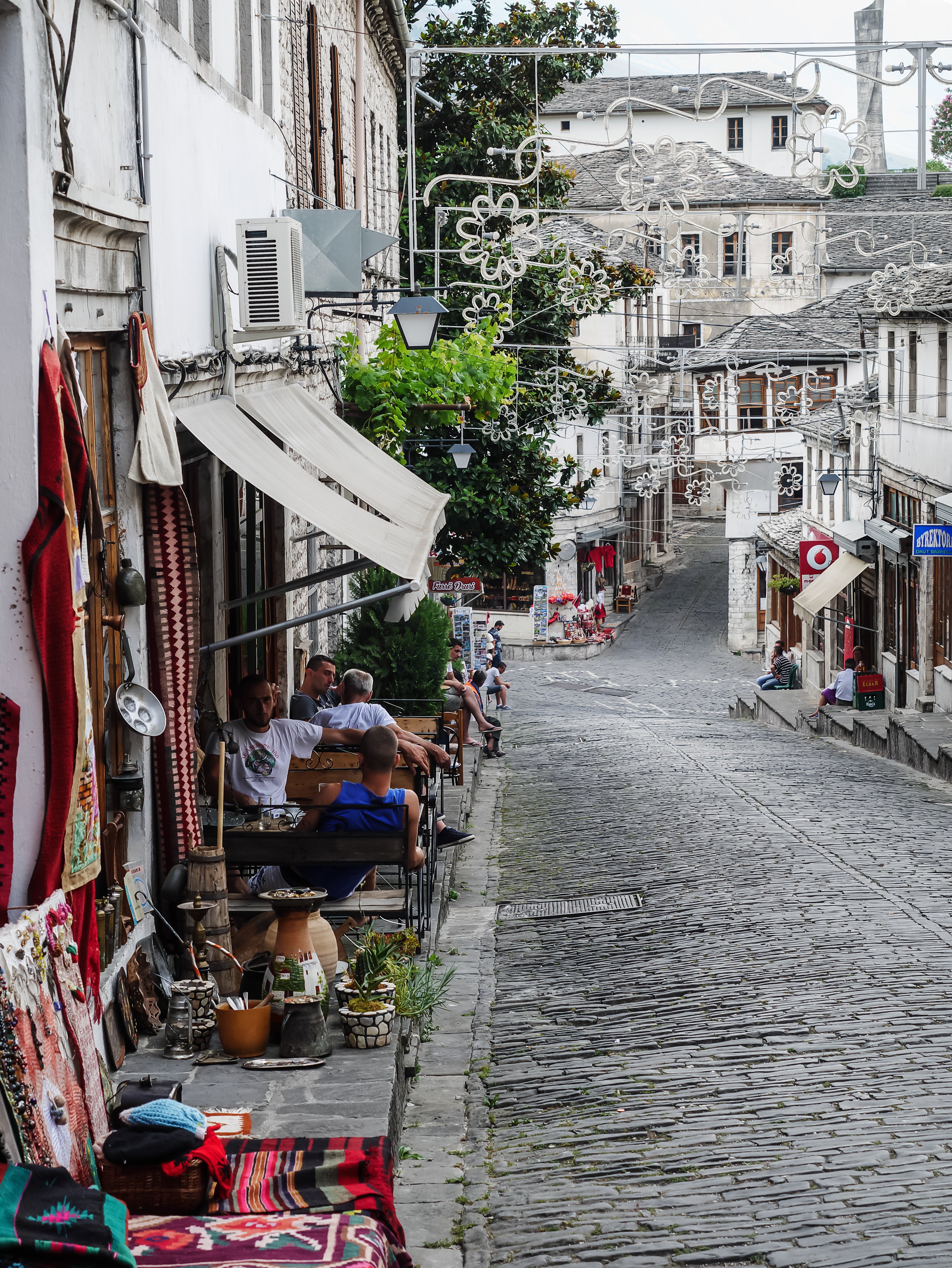 Gjirokastra 2016